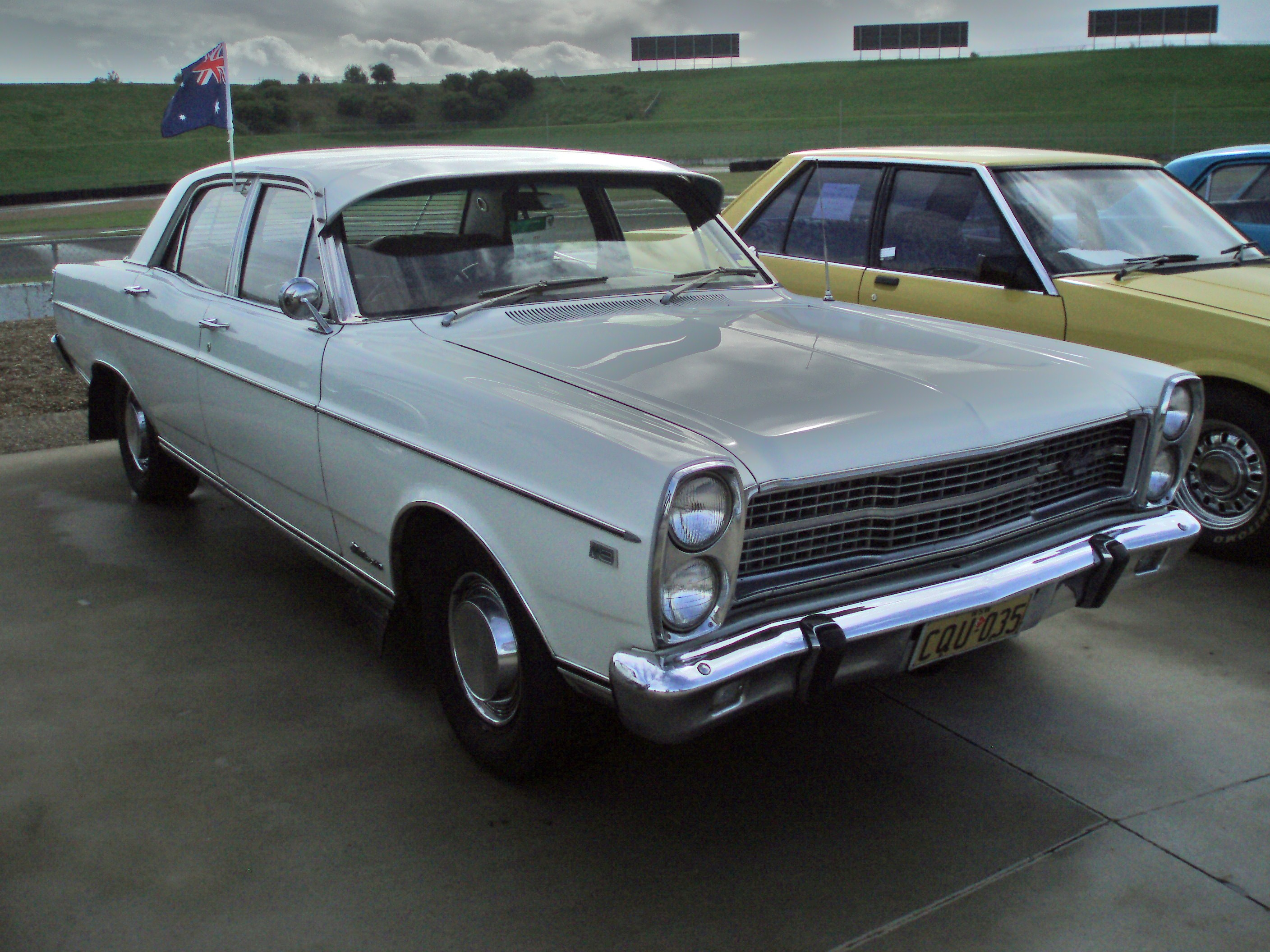 1971 Ford ZD Fairlane 500 sedan. Taken at the New South Wales All Ford Day 2009, held at Eastern Creek Raceway Sydney.